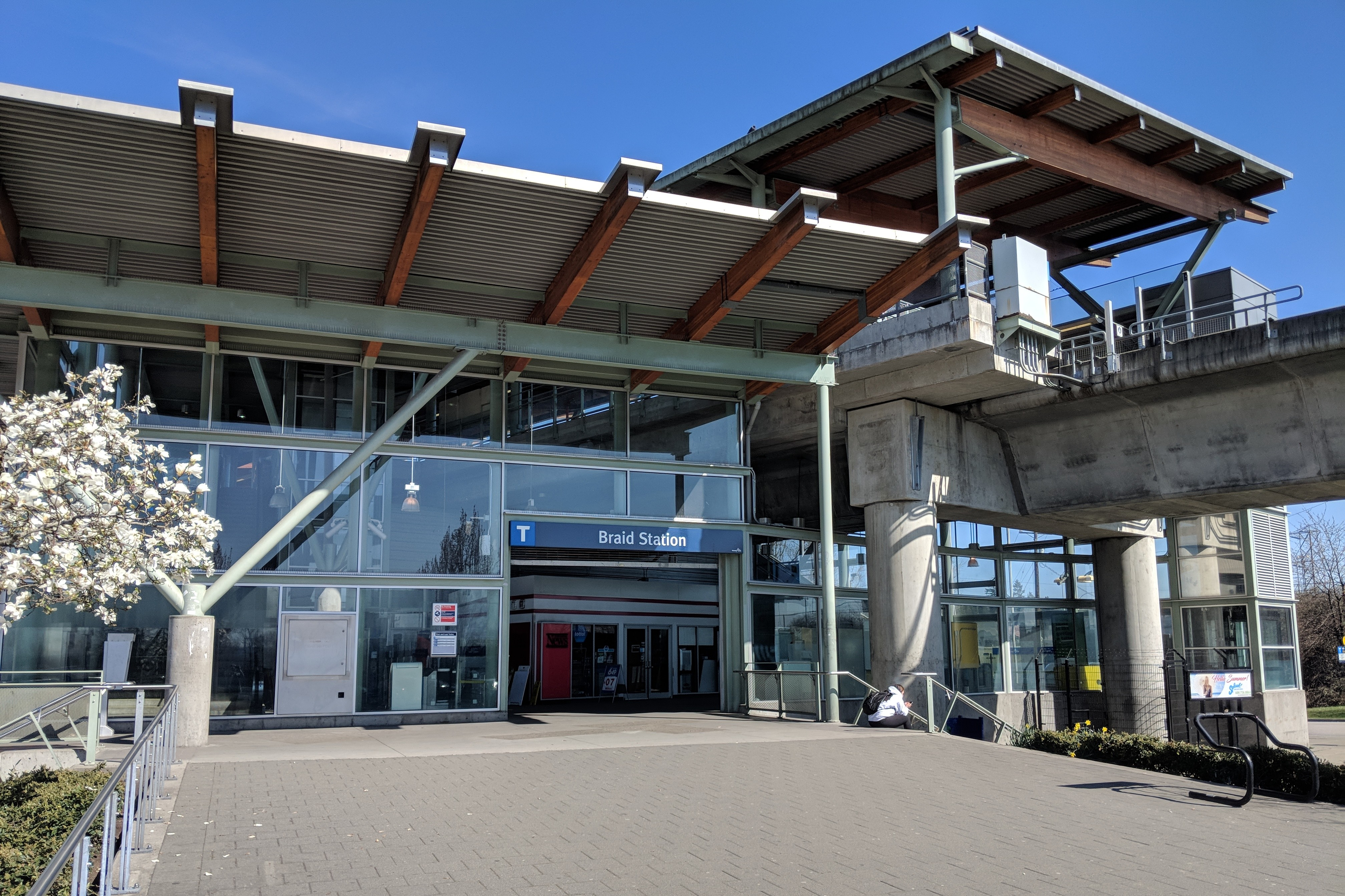 Braid station entrance in March 2019.